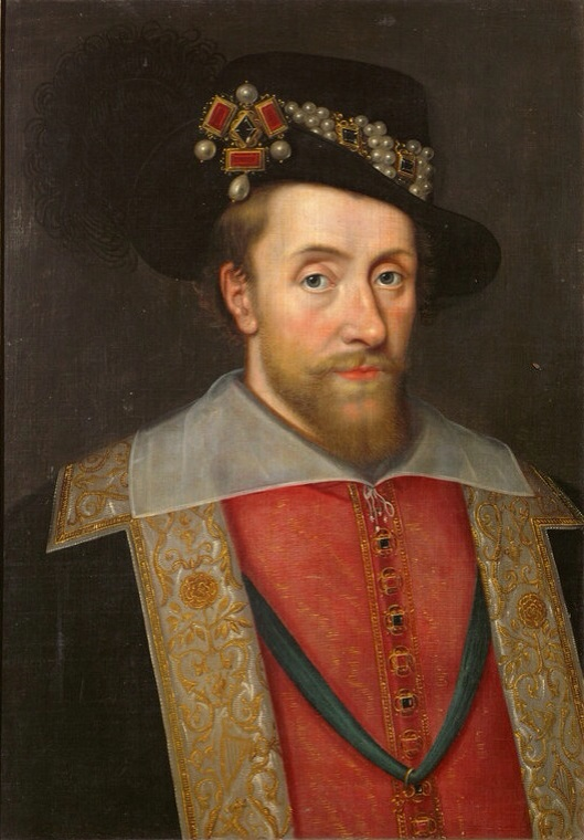 Portrait of James I of England wearing the jewel called the Three Brothers in his hat.